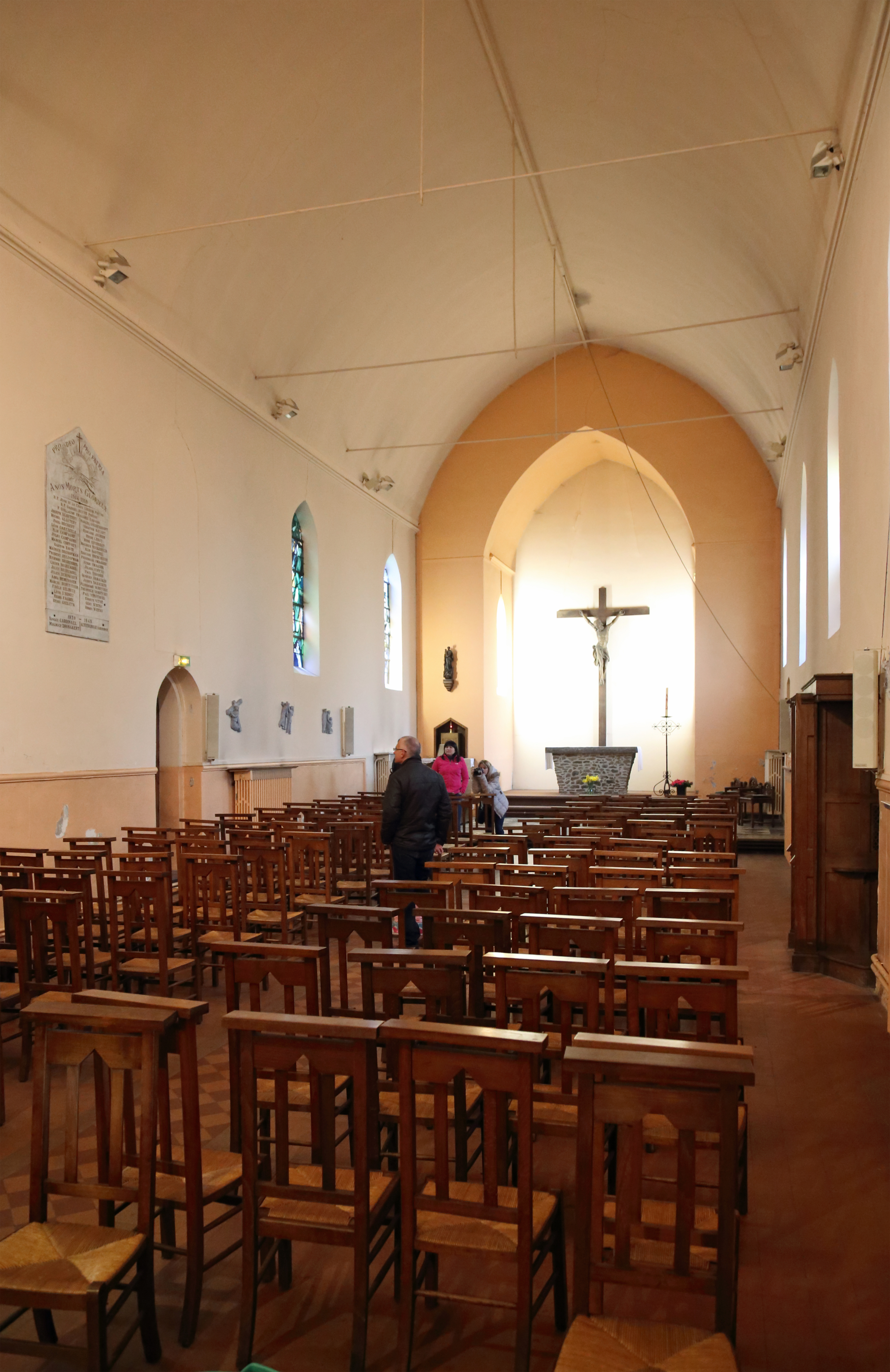 Godewaersvelde (département du Nord, France), Mont des Cats Abbey: chapel, interior